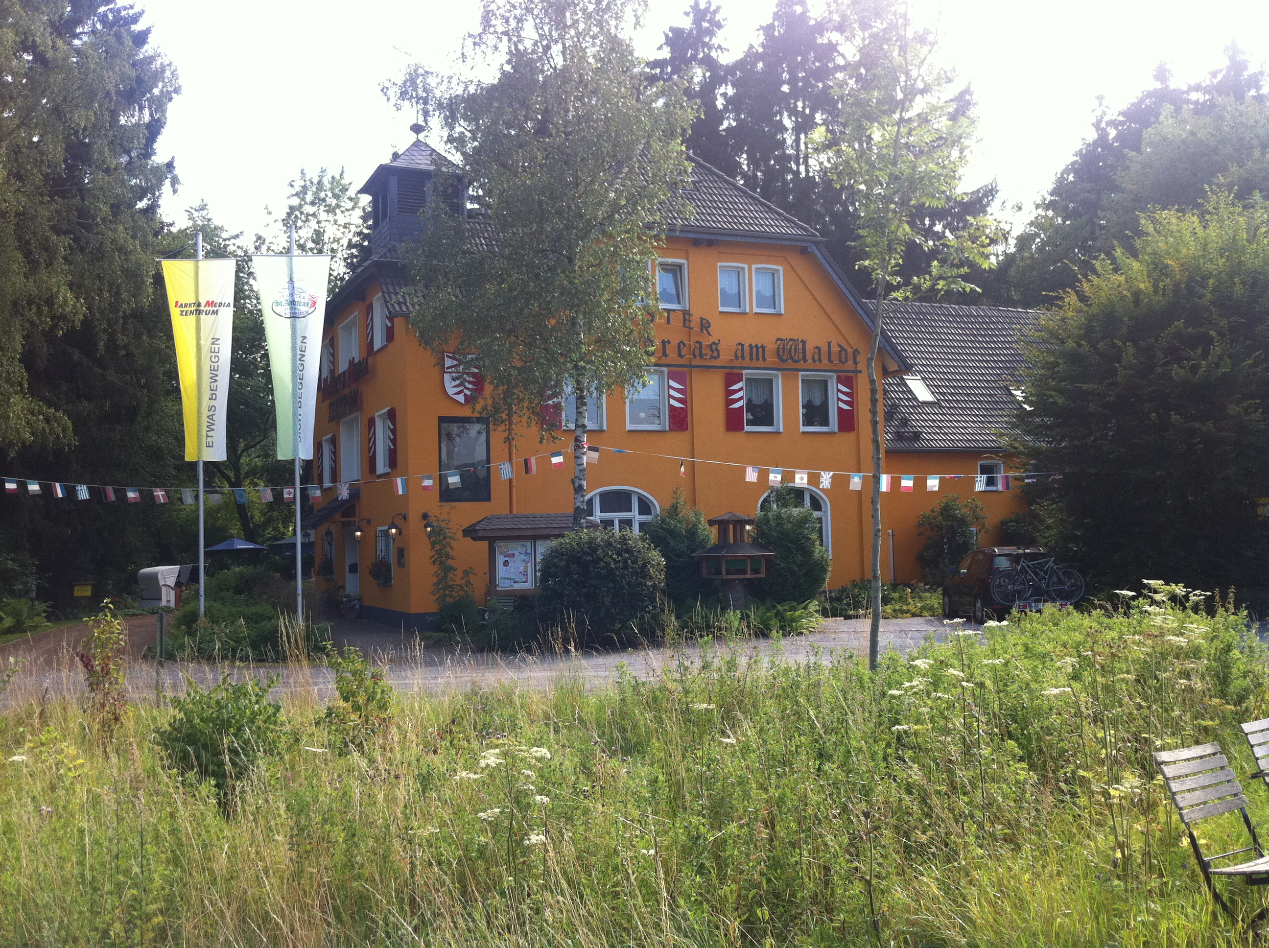 Maypole 2011 in Altenbeken, Germany